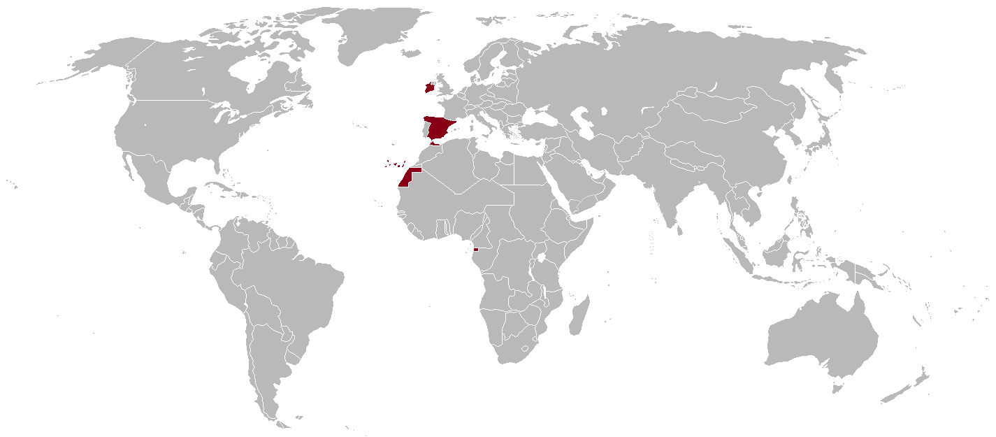 1936 Summer Olympics boycotting countries (red color on the map)